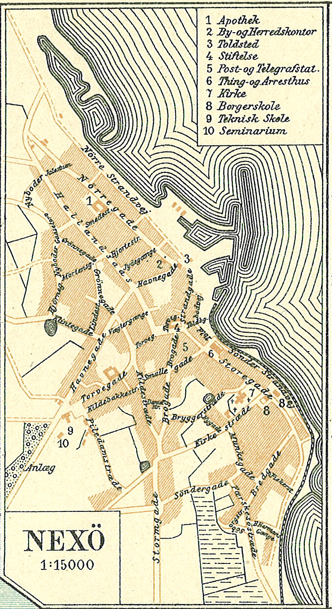 Map of Nexø on Bornholm in Denmark